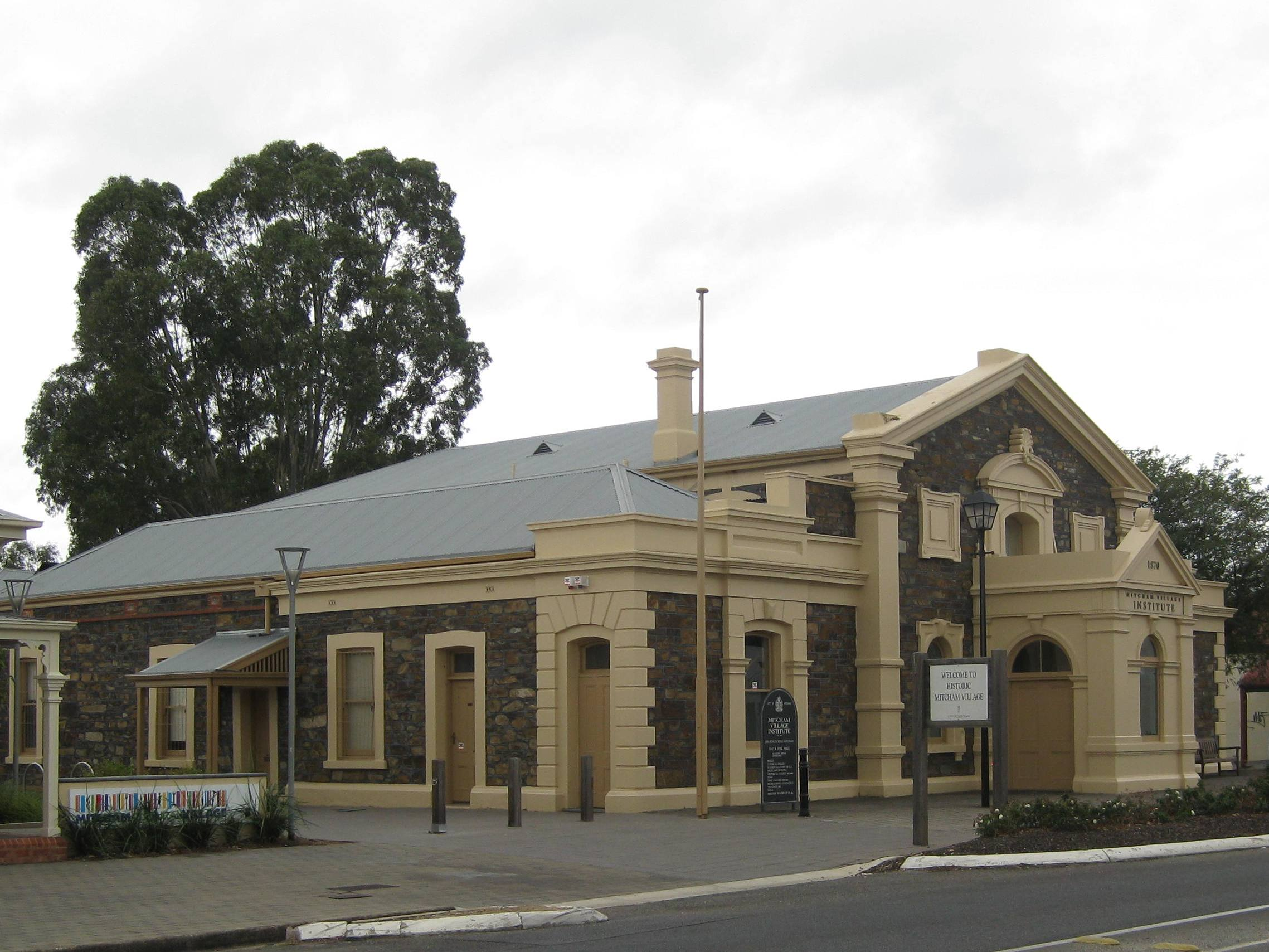 Mitcham Village Institute, Princes Road, Mitcham. Built in 1870.